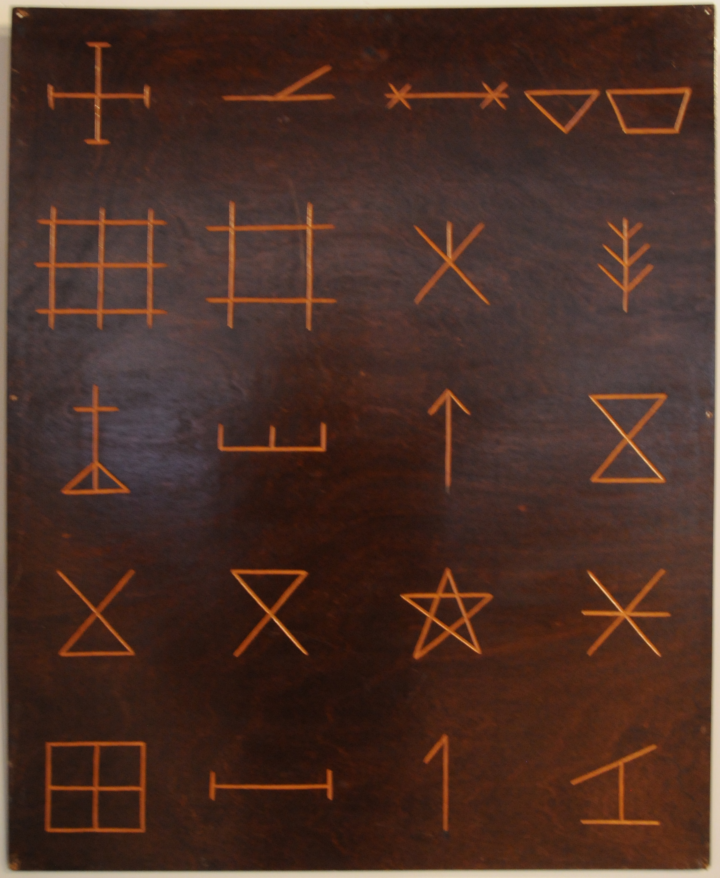 Museu Municipal de Etnografia e História da Póvoa de Varzim